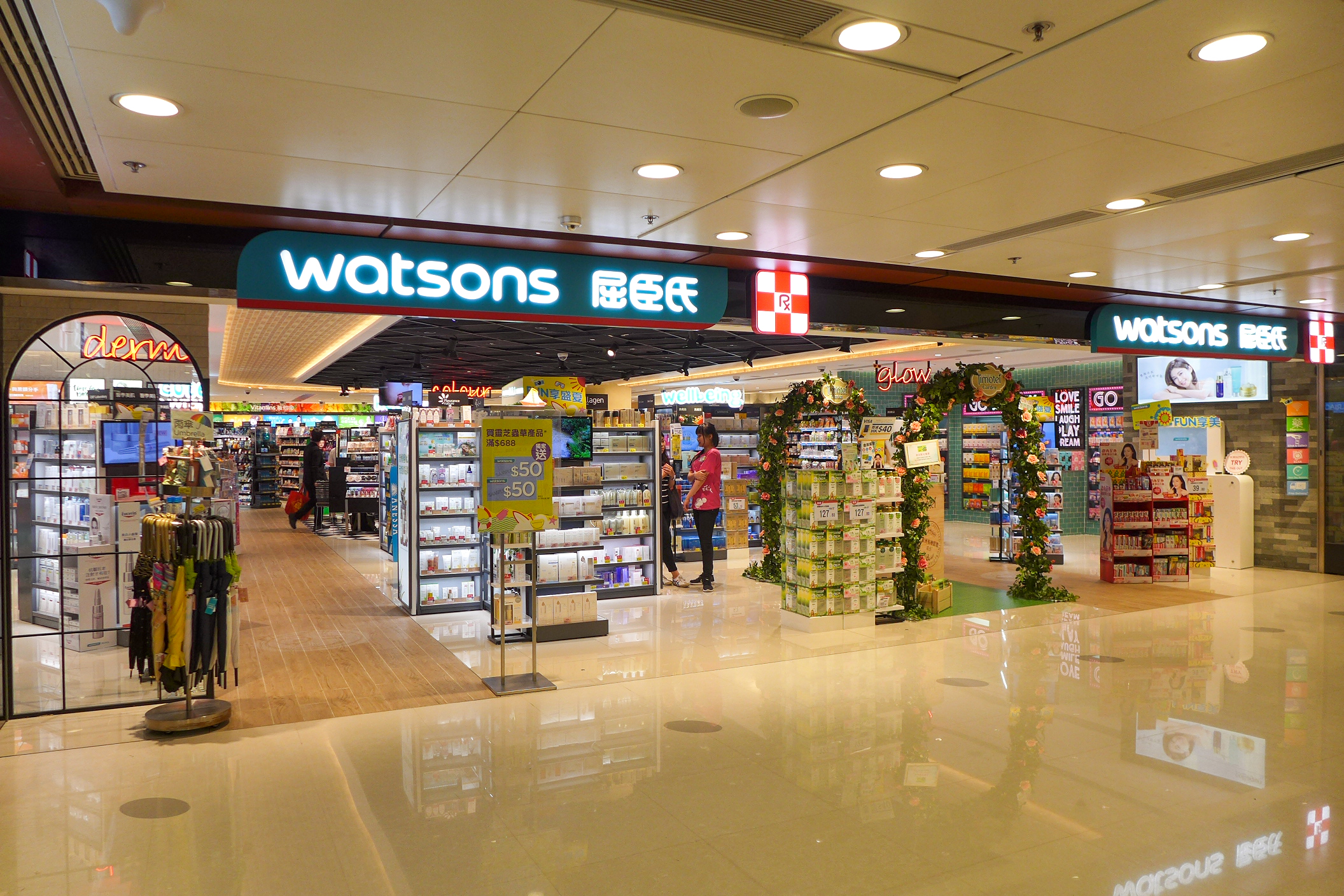 Telford Plaza Phase 1 Watsons